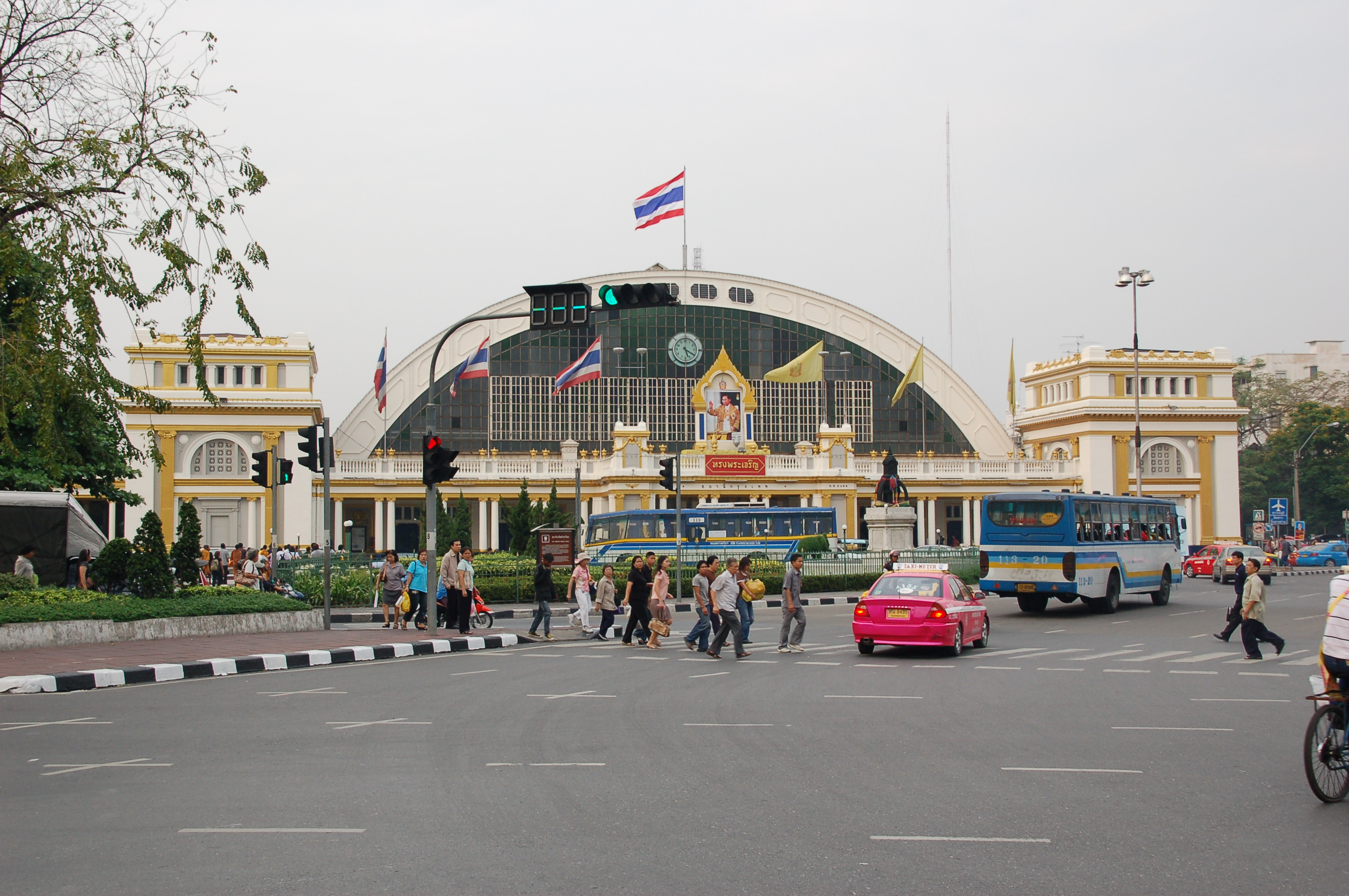 Hualamphong railway station, with recently-painted new colors, sponsored by TOA Paints co.